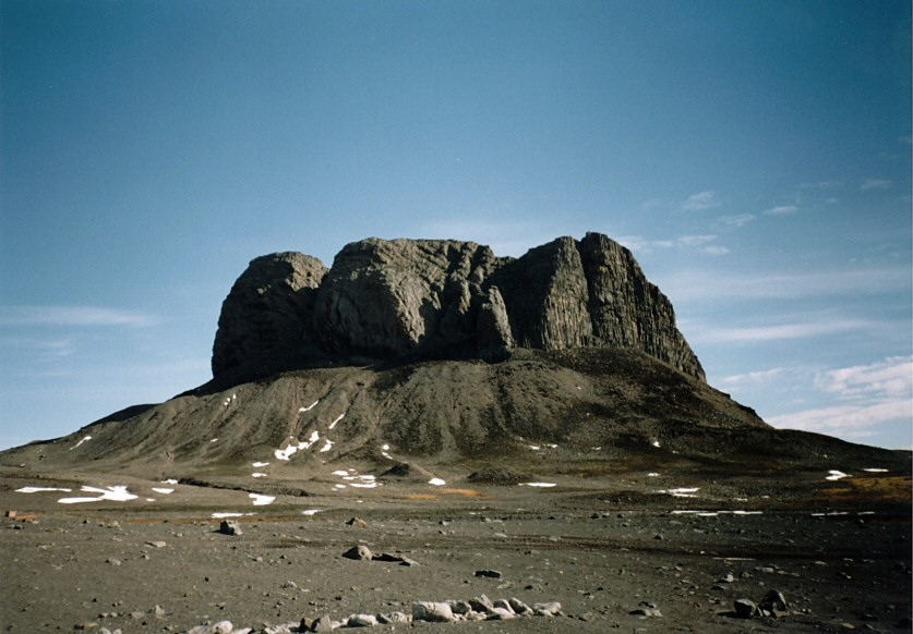 Extinct volcano Tres Hermanos in the vicinity of Argentinian Antarctic Base 'Jubany', King George I., South Shetland Is.